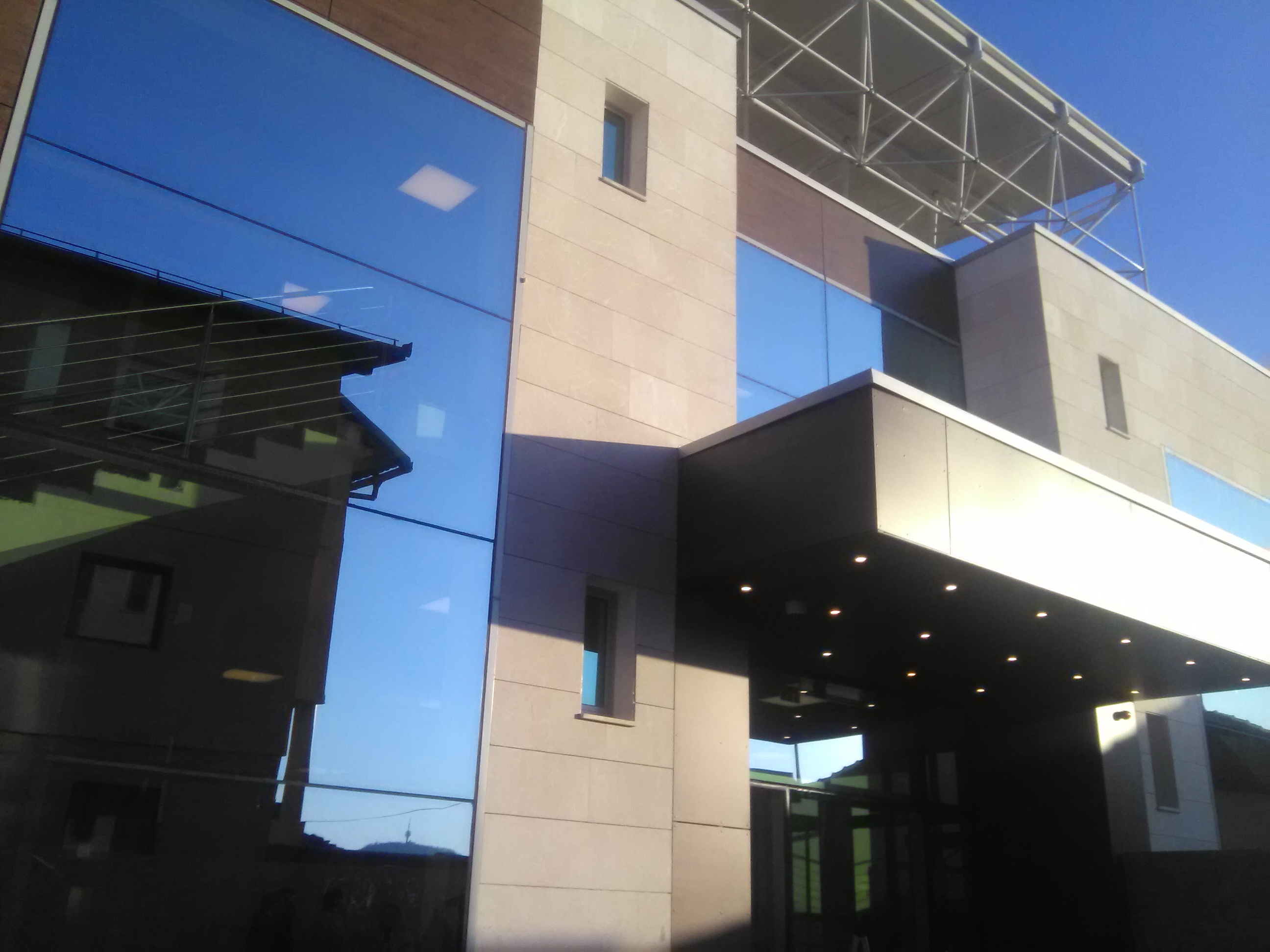 Building of departure station, new Sarajevo‘s cablecar.